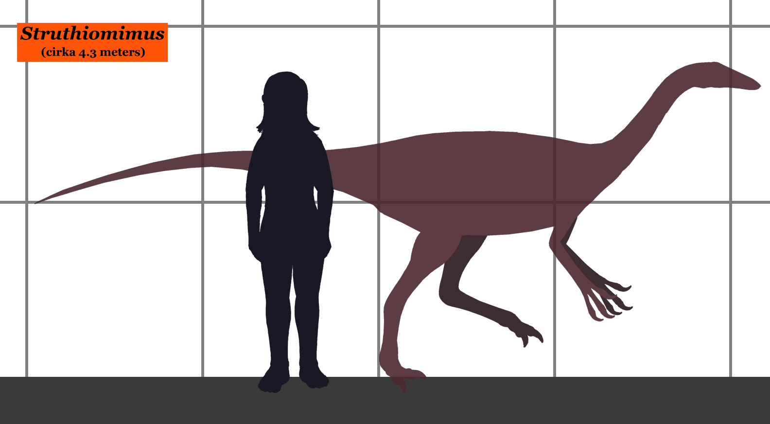 Size comparison between Ornithomimus (Sauropsida, Dinosauria, Saurichia, Theropoda, Tetanurae, Coelurosauria, Ornithomimosauria) and a human.